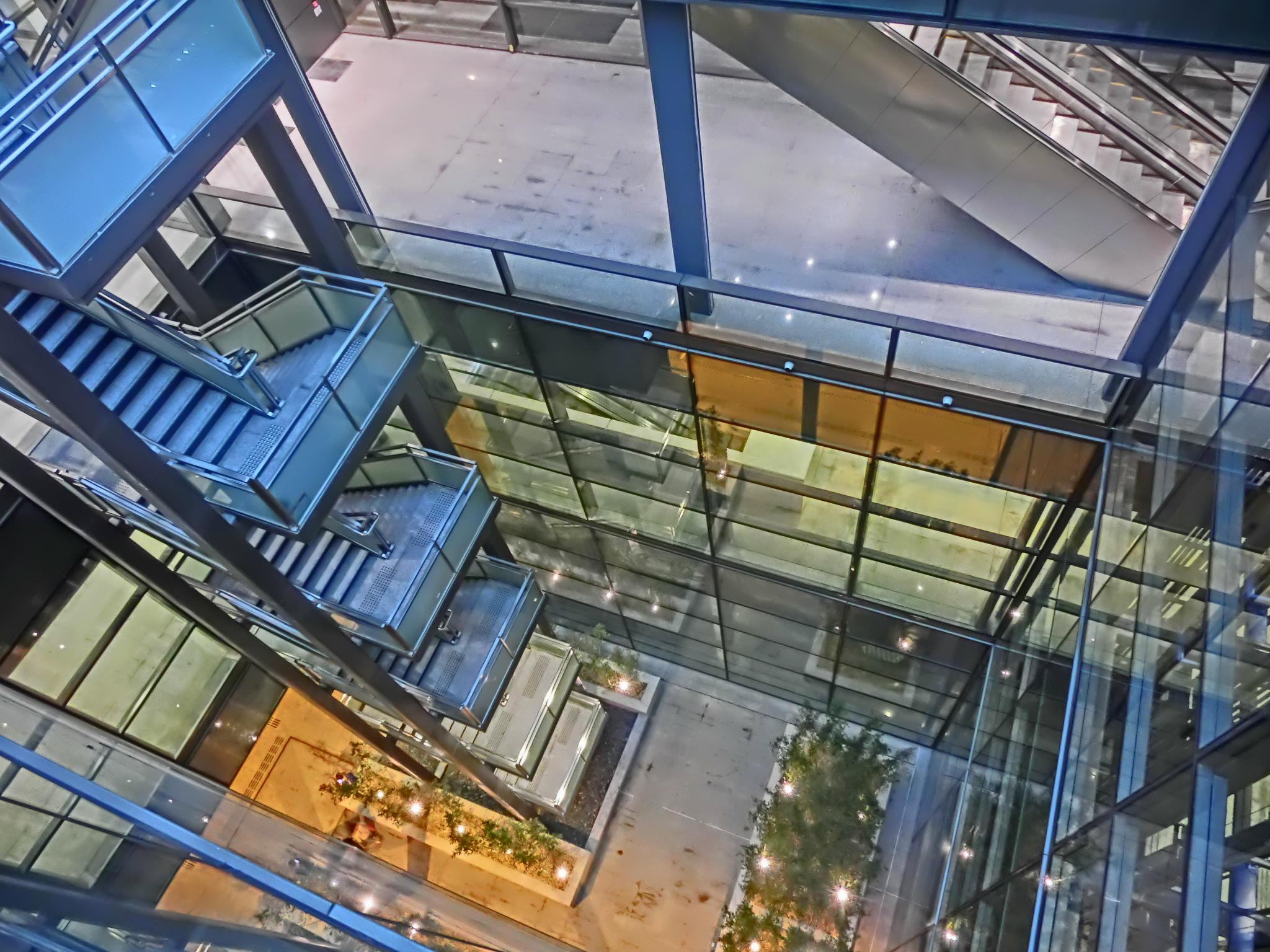 Roof of 啟德郵輪碼頭公園, Kai Tak Cruise Terminal Park, Kai Tak, New Kowloon, Hong Kong